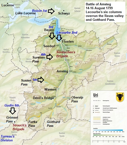 This map was created from "Reliefkarte Uri.png". The positions of the French and Austrian armies were added to the map.